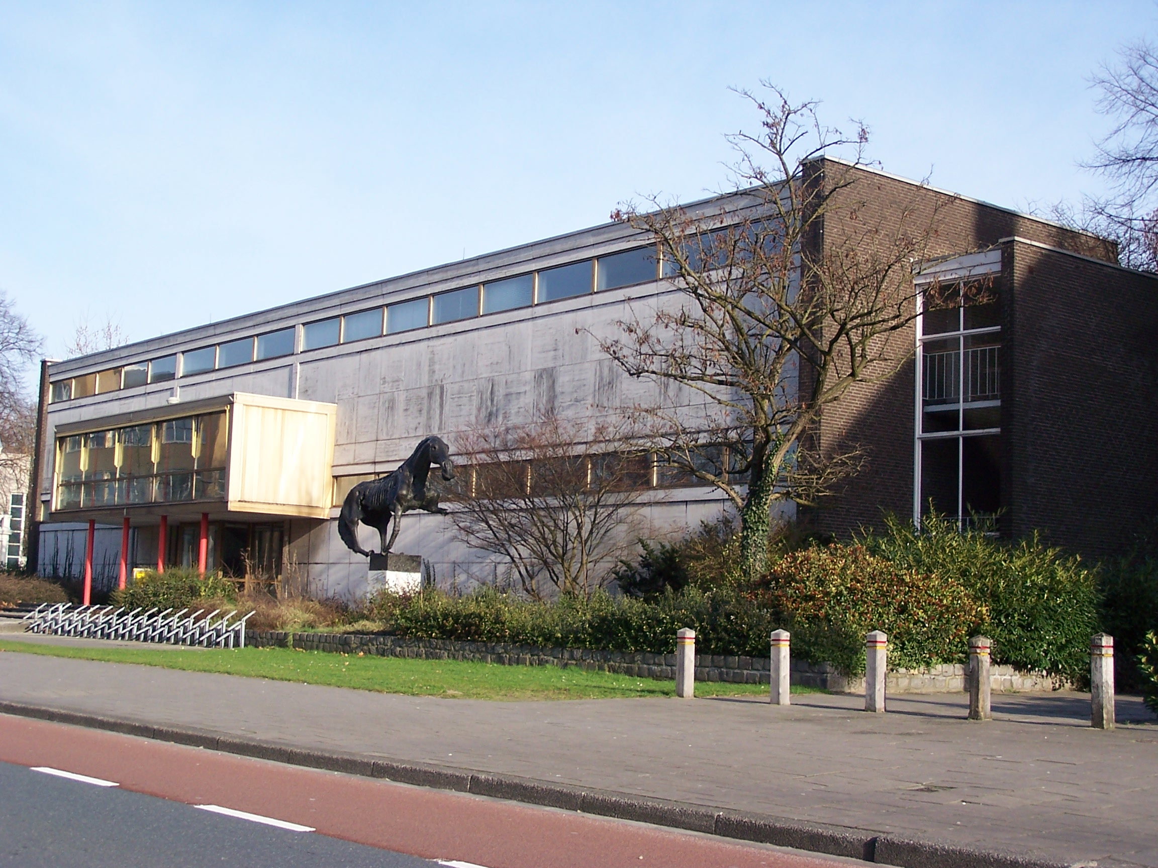 Enschede: Building of former 'Natuurmuseum' - Google Maps - Google Earth